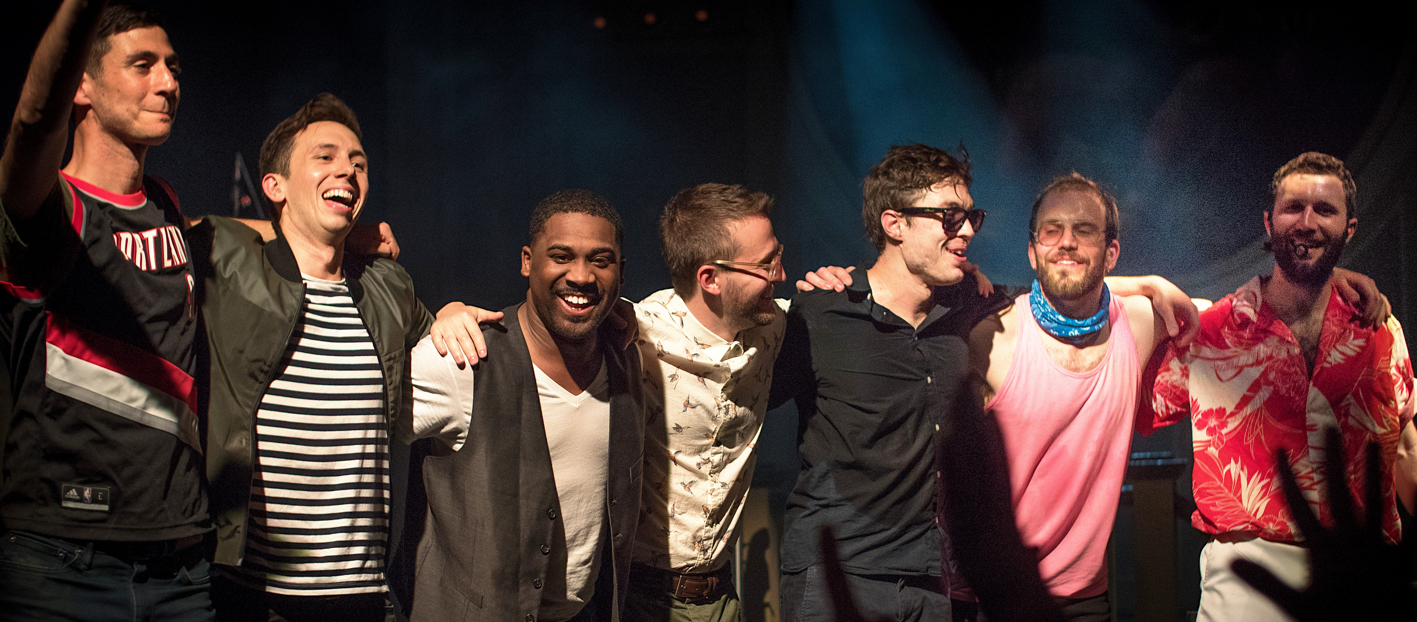 Vulfpeck at the Crystal Ballroom in Portland, Oregon, on May 26, 2017.[1] Band members, right to left: Jack Stratton, Theo Katzman, Joe Dart, Woody Goss. Touring partners, left to right: Joey Dosik, Corey Wong, Antwaun Stanley.